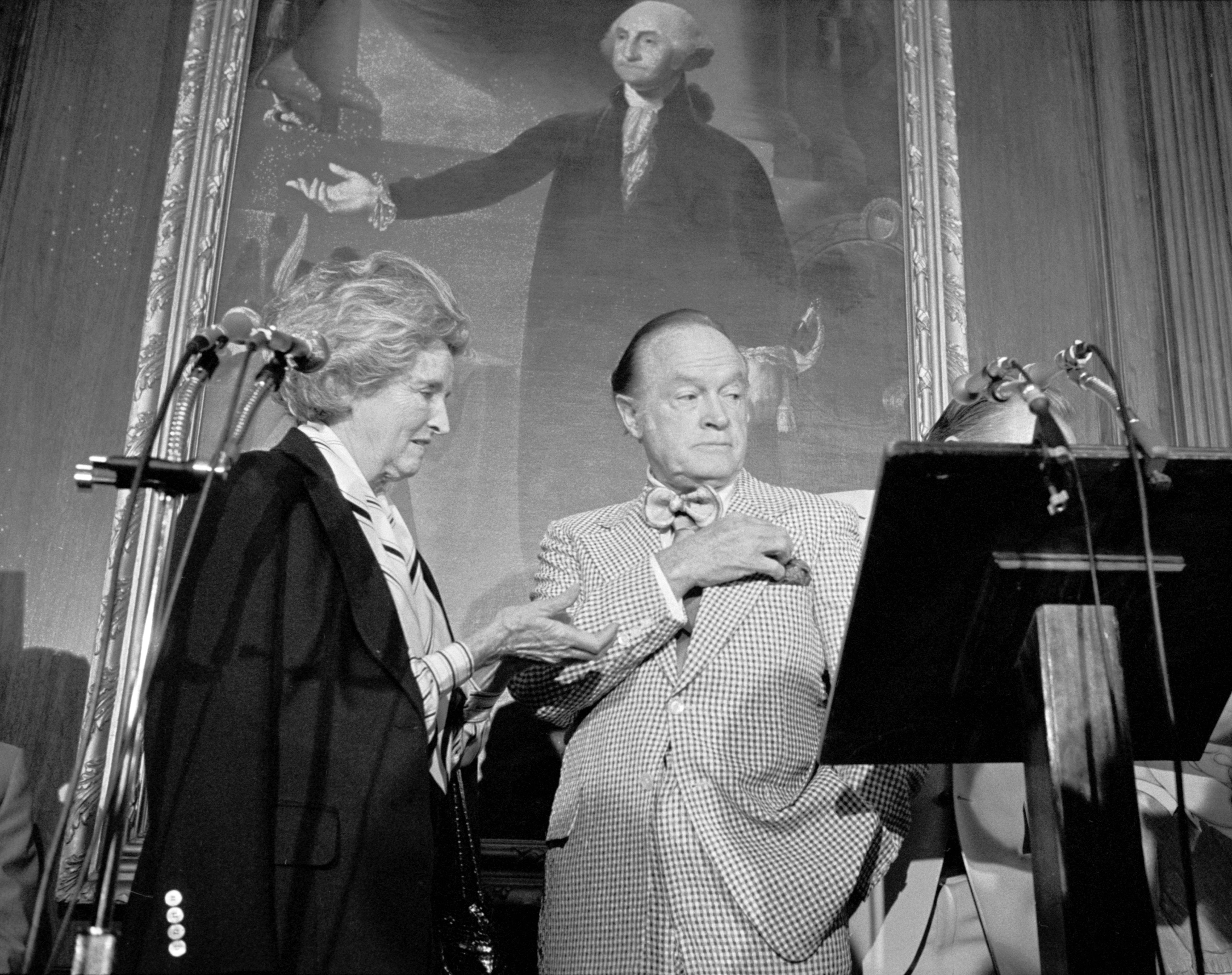 Bob Hope gets plaque on Hill. Bob Hope and his wife, Dolores Hope